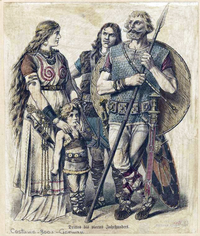 Ancient german family. Illustration from Costumes of all nations : 123 plates, containing over 1500 coloured costume pictures by the first Munich artists. Grevel, 1913.